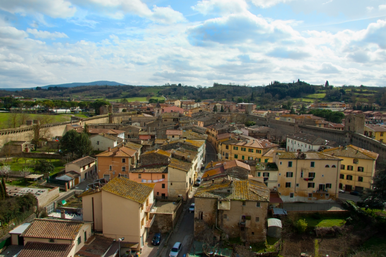 Staggia Senese view from the castle